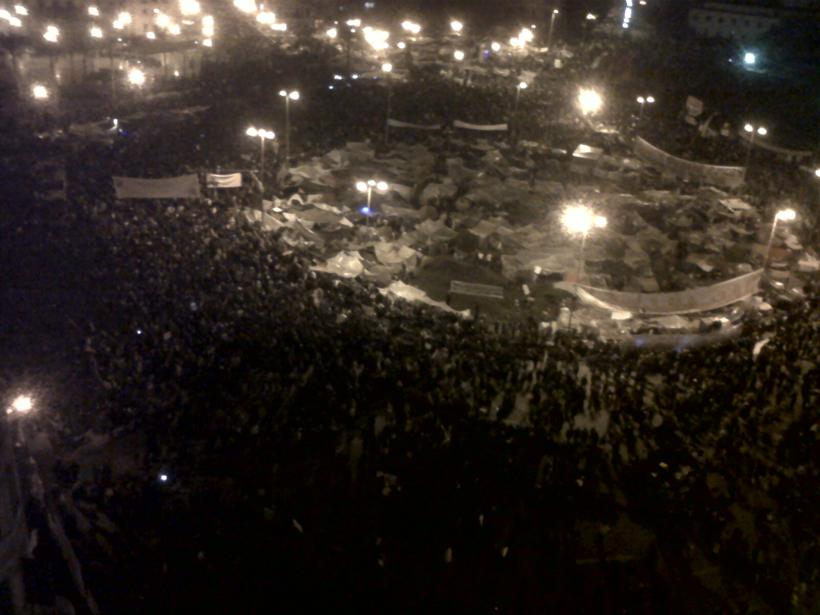 Tahrir Square during 9 February evening, in Cairo during the Egyptian Revolution of 2011. IMG01296-20110208-2018